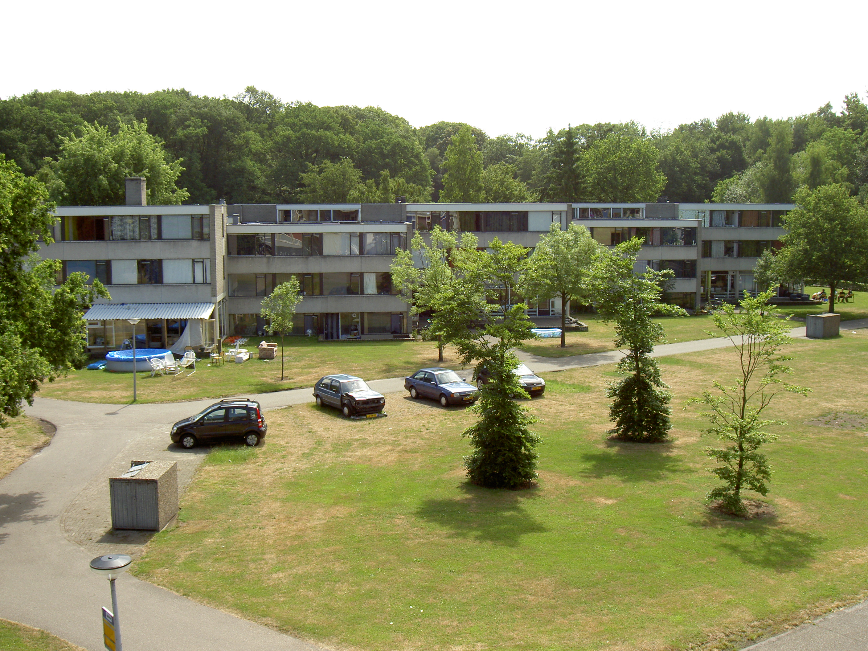 Several student dorms on the University of Twente at the Calslaan. Picture made by myself.